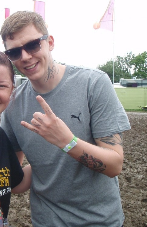 Professor Green at the 2011 Glastonbury Festival